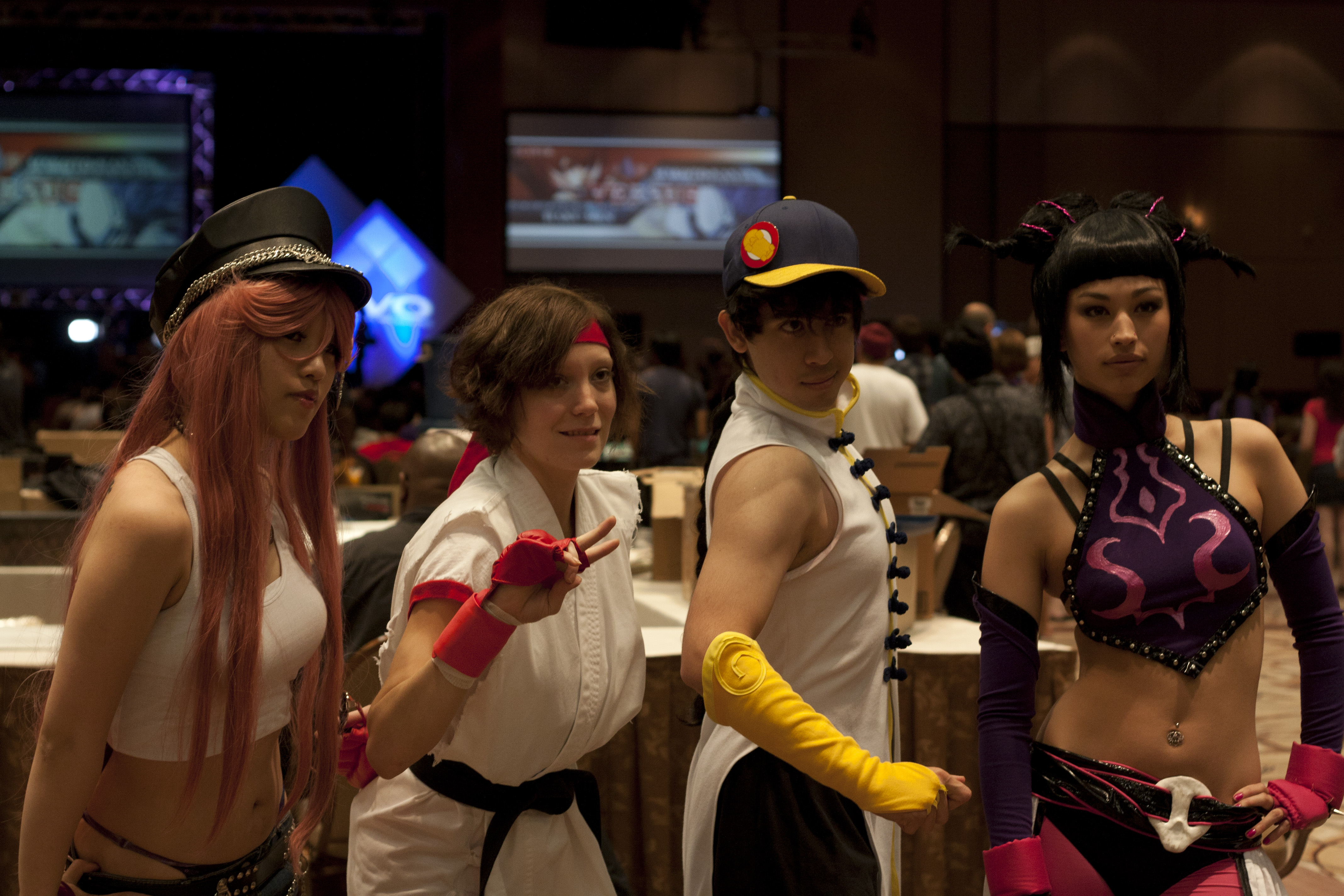 Taken on July 31, 2011 Canon EOS Digital Rebel XSi